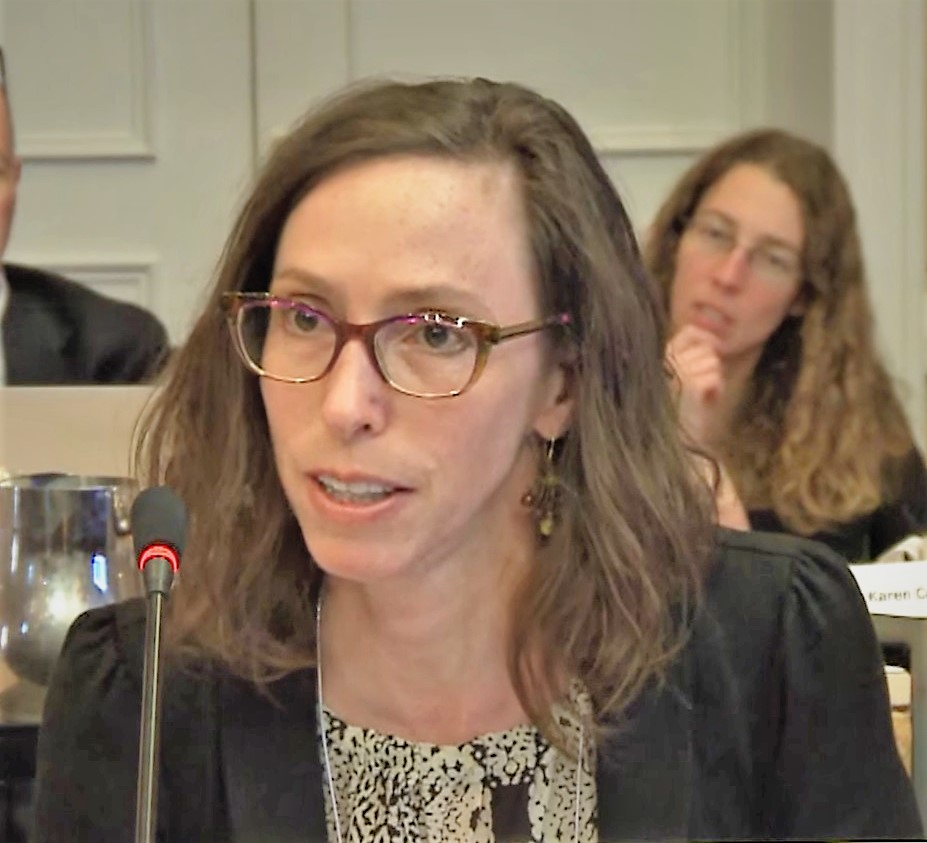 GM9 Next Steps Discussion April 19-20, 2016 - Genomic Medicine Meeting IX: Bedside to Bench - Mind the Gaps. More